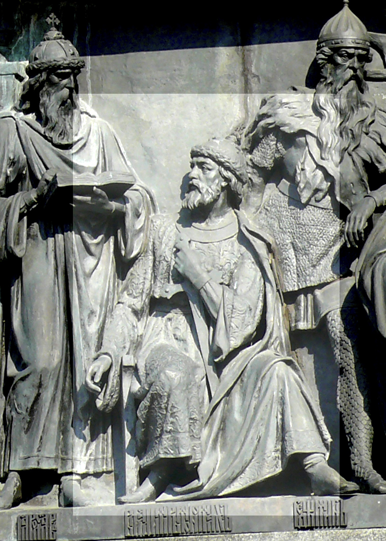 Vladimir II Monomakh on the Monument «Millennium of Russia» in Veliky Novgorod